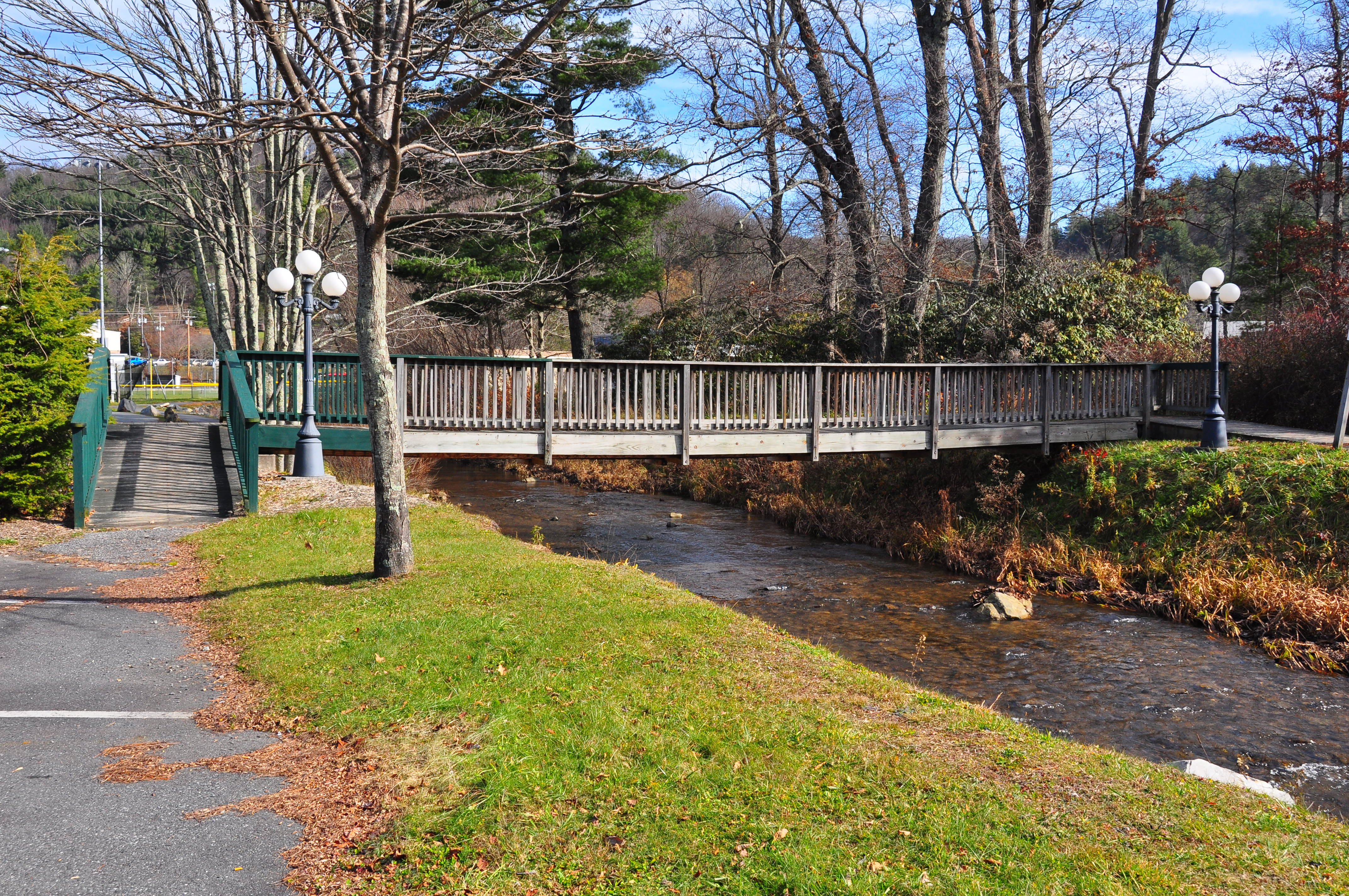 Bridge over the North Toe River, along Schultz Circle in Newland, North Carolina.